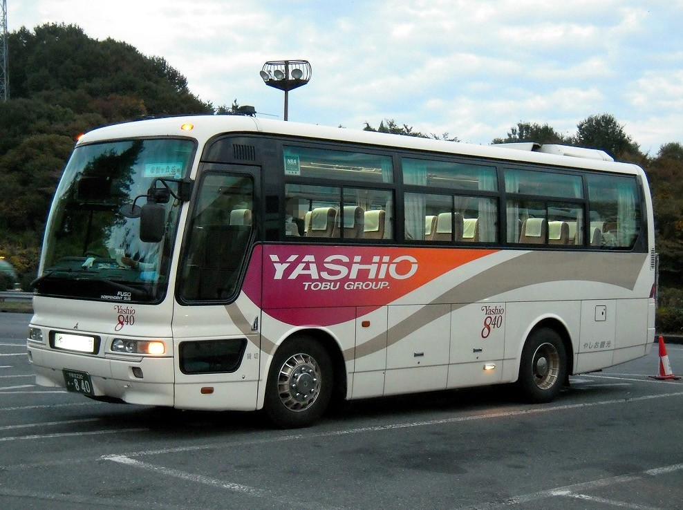 Yashio Kanko bus Mitsubishi Fuso Aero Bus MM (KK-MM86FH)